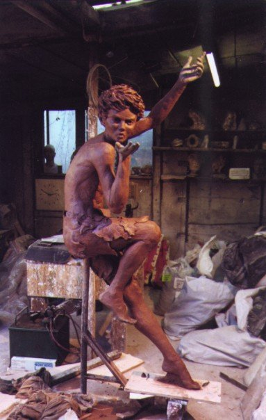 Creating Peter Pan for Great Ormond Street Hospital